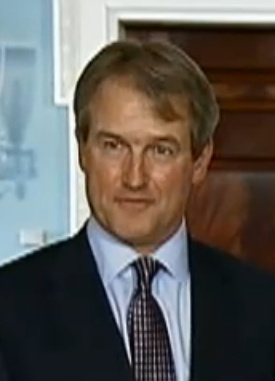 Owen Paterson alongside Hillary Rodham Clinton (not shown) delivering remarks to the press prior to a conference at the US Department of State.